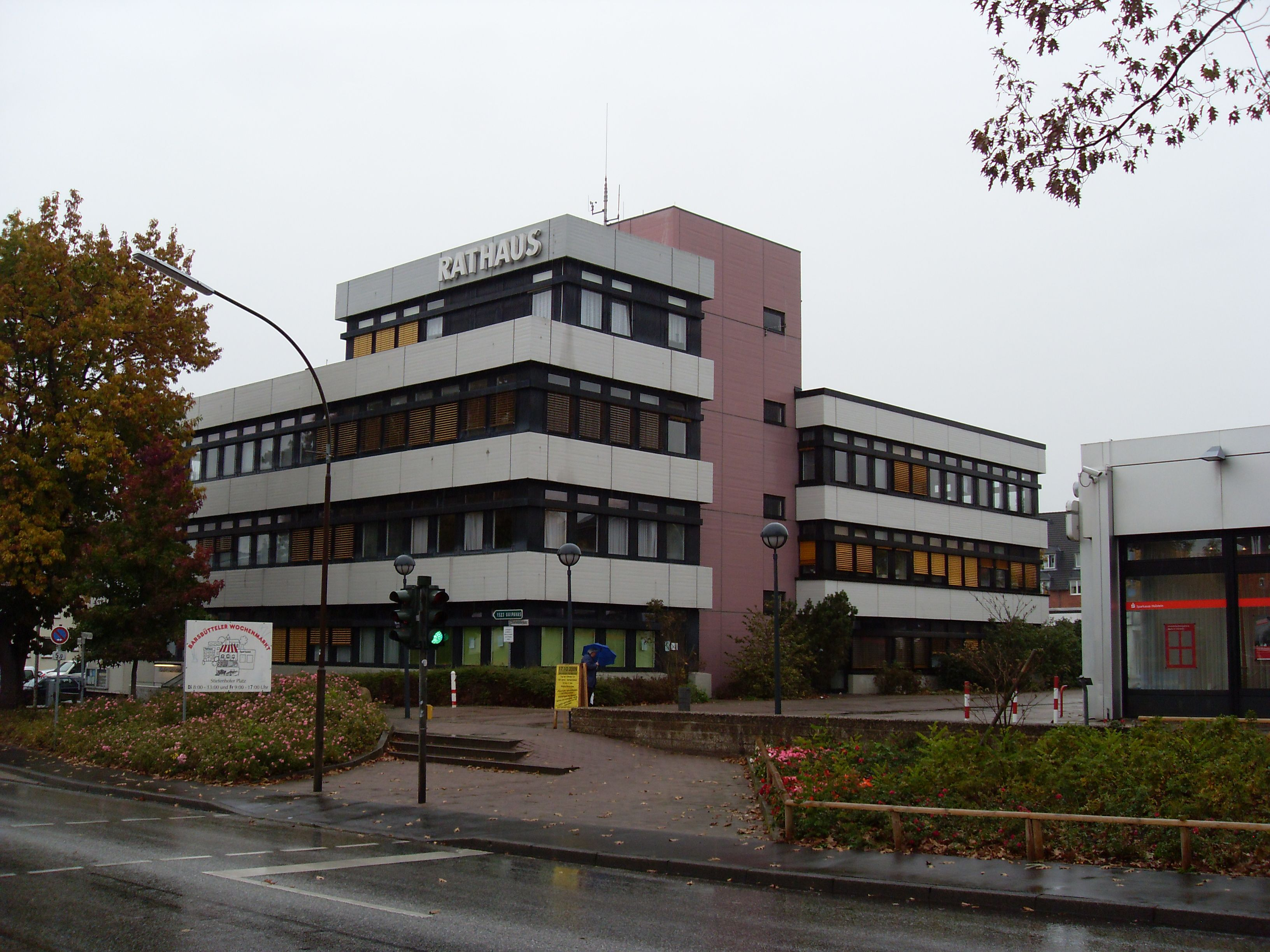 The city hall in Barsbüttel at Stiefenhofer Platz